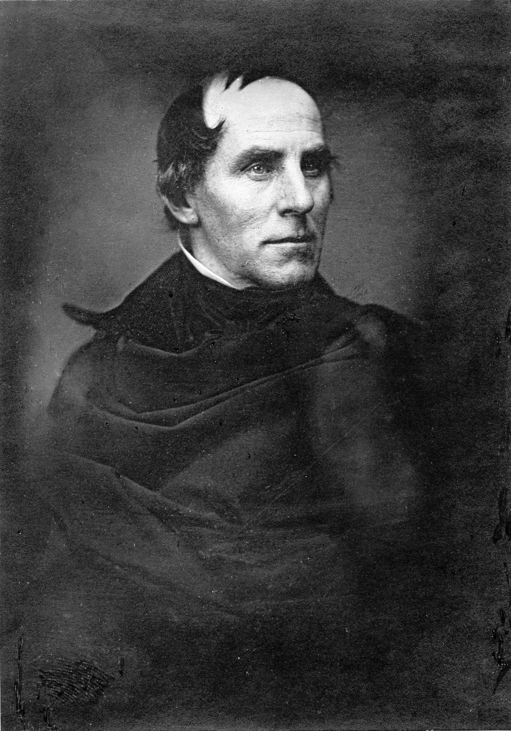 Portrait of Thomas Cole, American painter